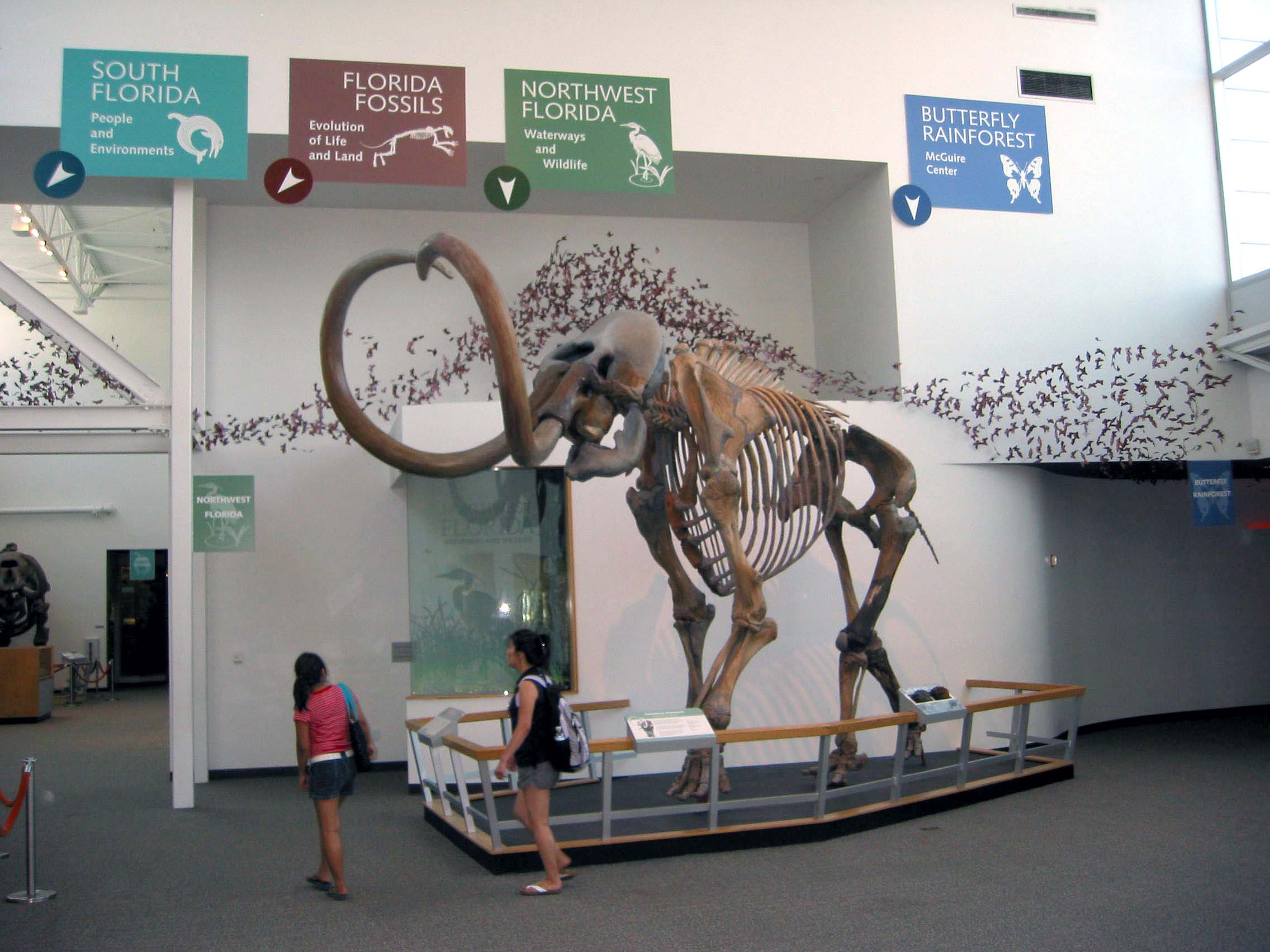 A Colombian Mammoth in the Main Gallery of the Florida Museum of Natural History, Powell Hall.